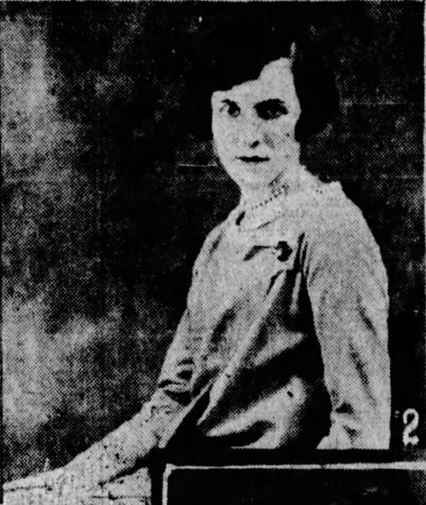 Elizabeth Abernaty Solbert